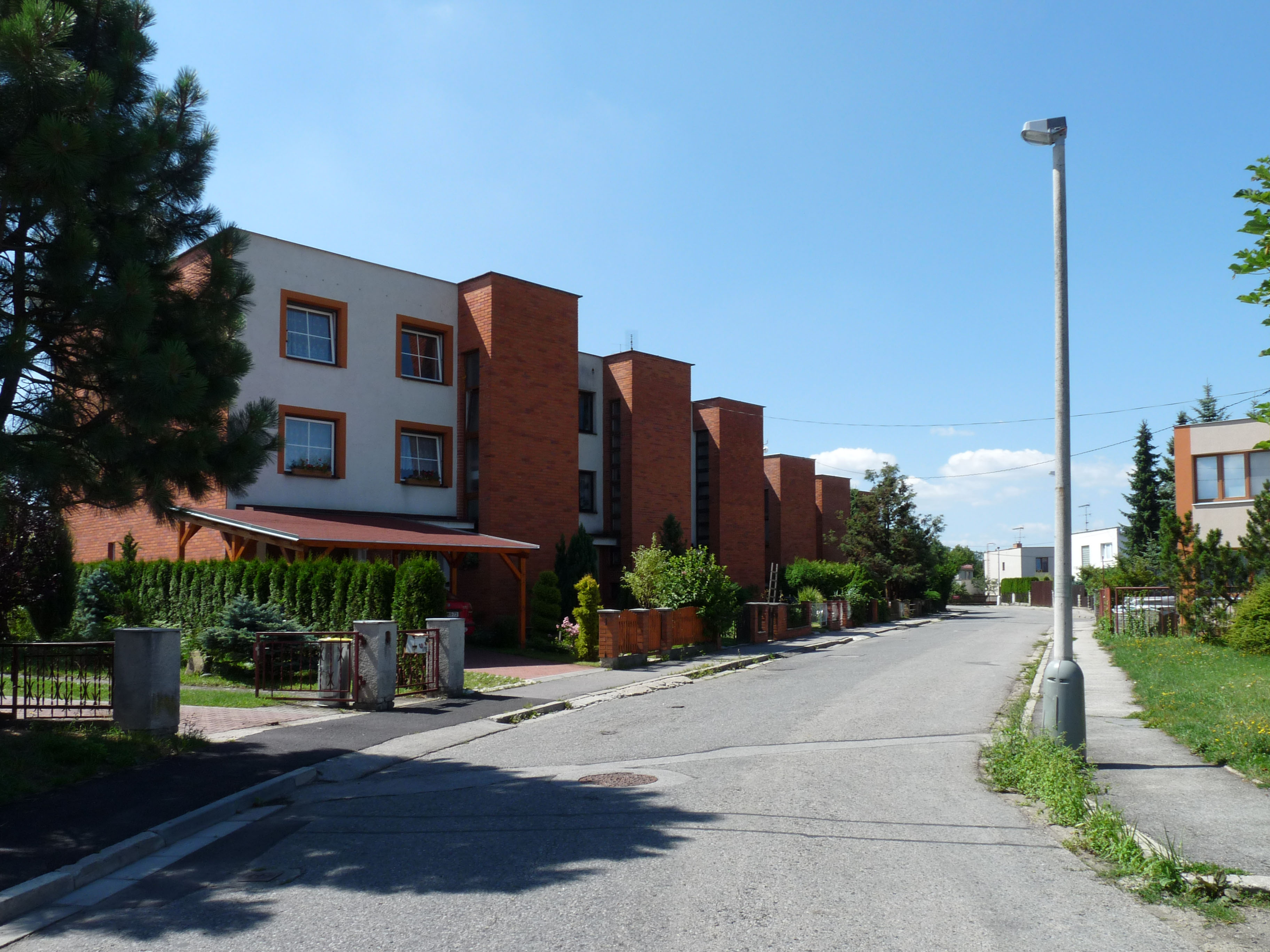 Terraced houses in Rybářská street, Nemanice, part of České Budějovice, Czech Republic. Česky: Řadové domky v Rybářské ulici v Nemanicích, části Českých Budějovic.